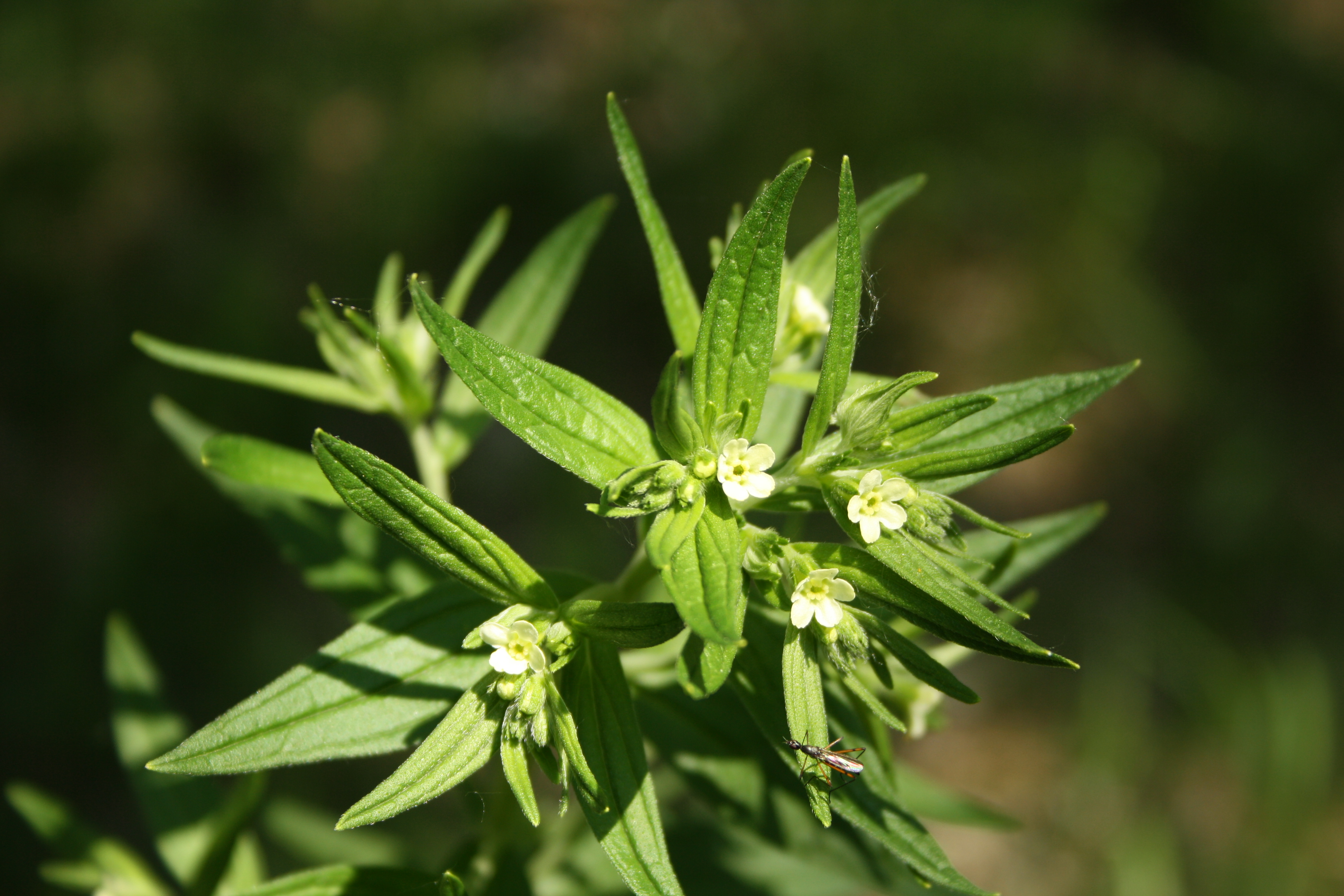 Lithospermum officinale